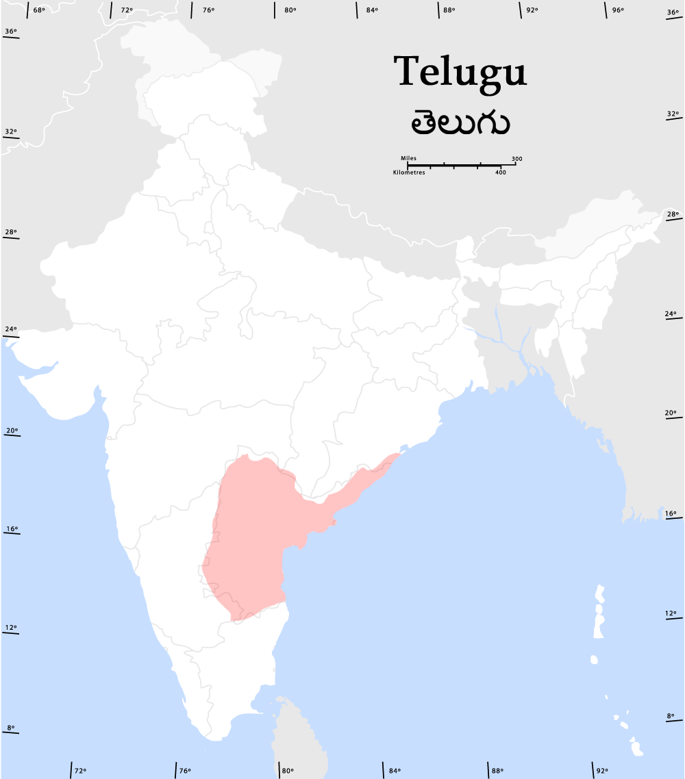 A map of the distribution of native Telugu speakers in India, based on the 1961 census data.